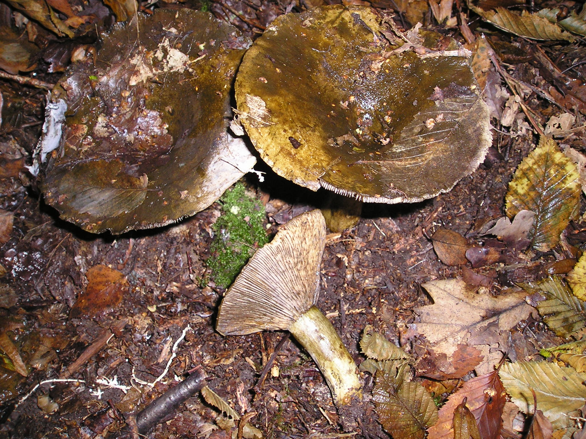 Lactarius turpis = L. plumbeus = L. necator (Ugly Milk-cap) in a French wood near Rambouillet.